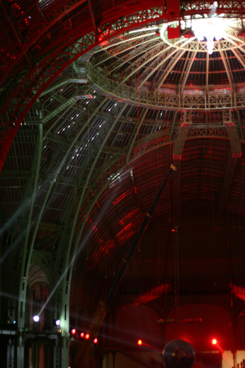 Grand Palais during "La Nuit Blanche" in Paris